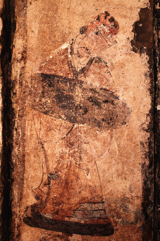 Mural painting of a male figure found in a late Western Han dynasty tomb in Yang-shan town, Shantung province.